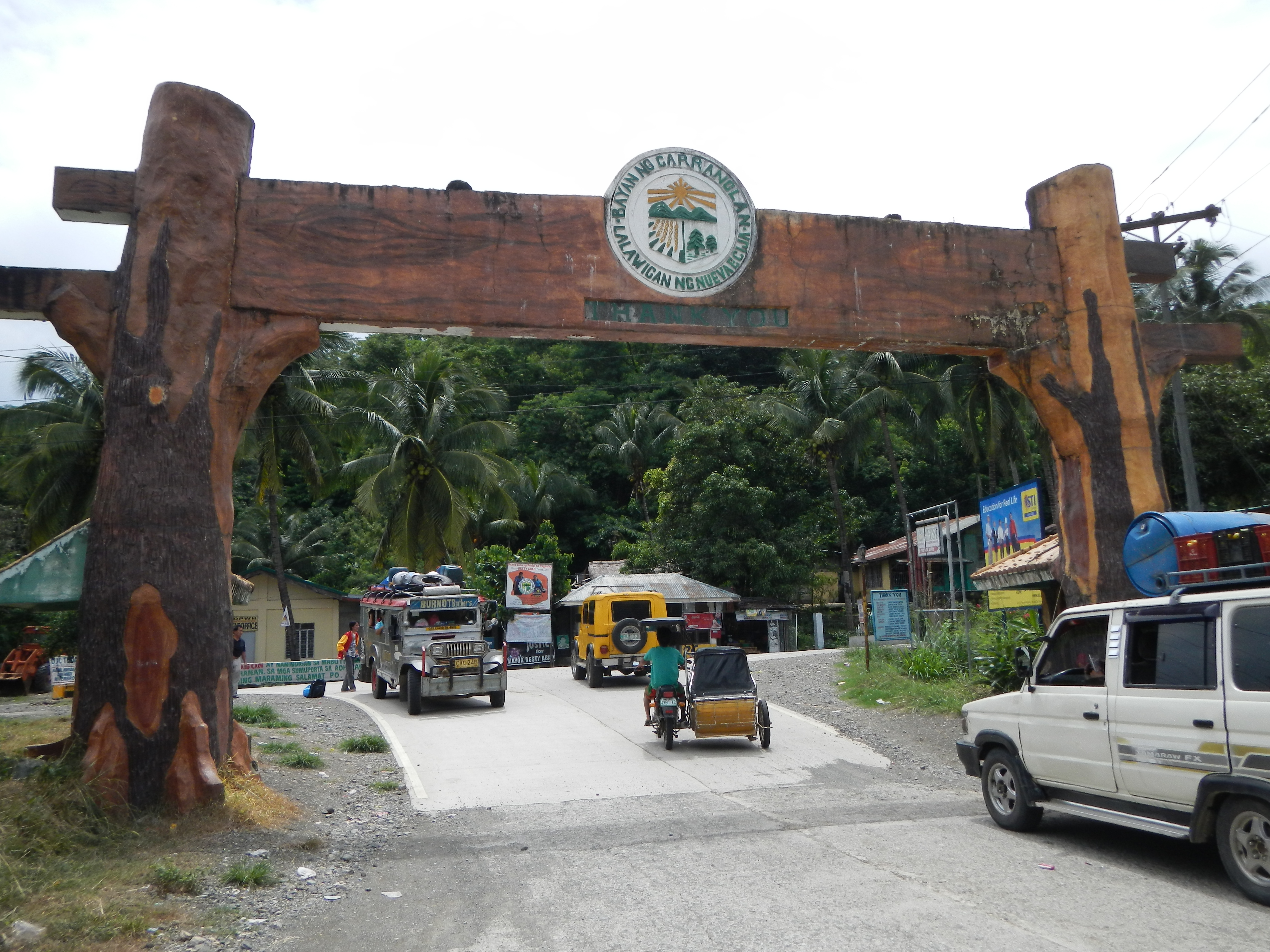 UploadWizard of Maharlika Highway Welcome Arch of Caranglan, Digdig, Piut Nueva Ecija[1] Coordinates: 16°2'1"N 120°57'22"E Welcome Arch - Latitude: 15°57'7.5" Longitude: 120°58'39.03" --- Carranglan, Nueva Ecija[2] is a second class municipality in the province of Nueva Ecija[3], Philippines - 2010 census, a population of 37,124 people - the province's largest municipality in terms of land area.[4]2013 Elections [5] [6] Land Area: 705.31 km² ZIP Code: 3123 [Coordinates: 15°59'42"N 121°1'40"ECarranglan road Latitude: 15°57'3.24"- Longitude: 120°59'58.2"[7]Mayor Restituto Abad dies 5 days after gun attack in Nueva Ecija Thursday, February 9th, 2012 The gunman, Jonathan Carpio, and the other suspects.